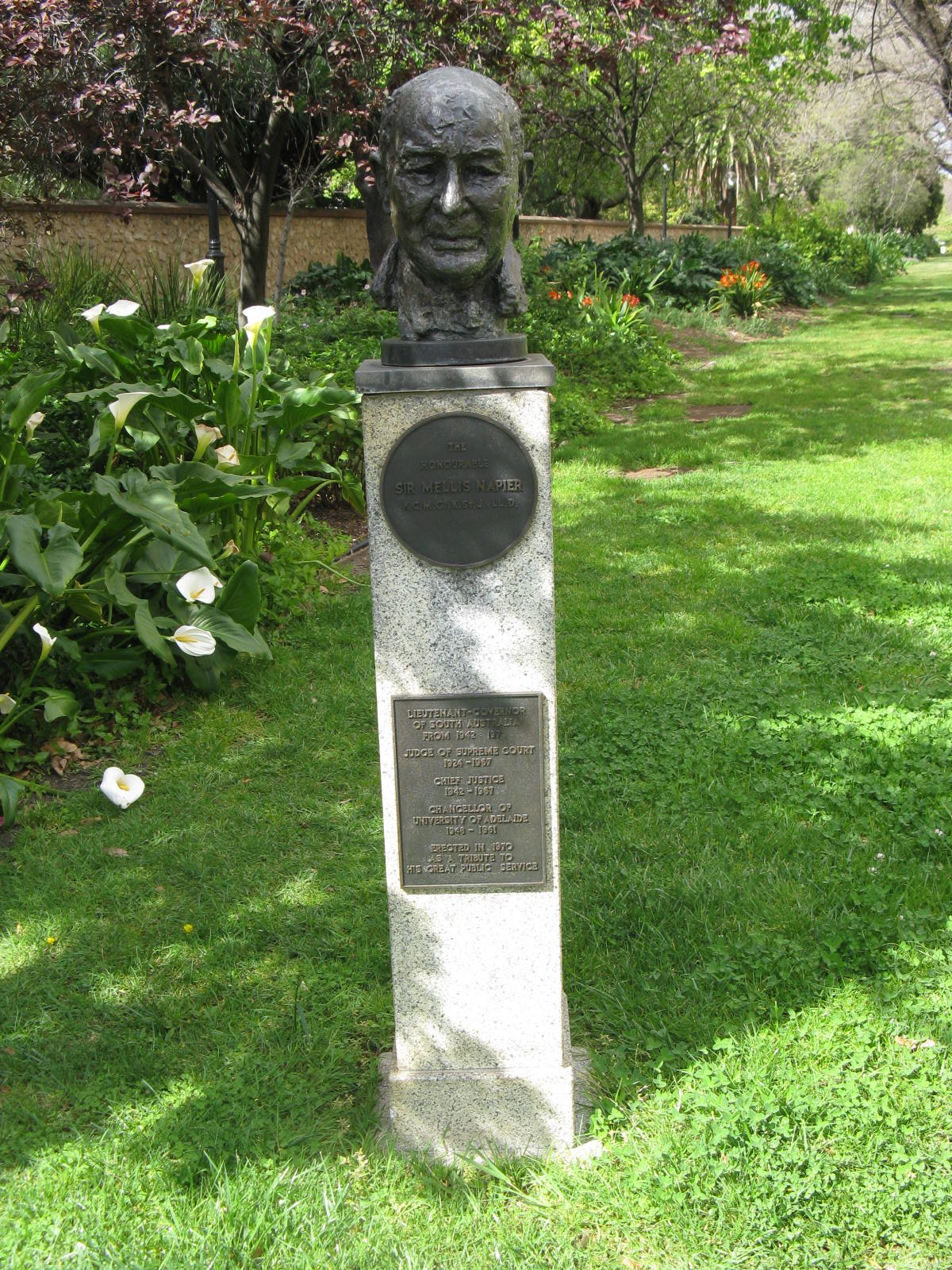 Jubilee 150 Walkway Statue of Sir Mellis Napier